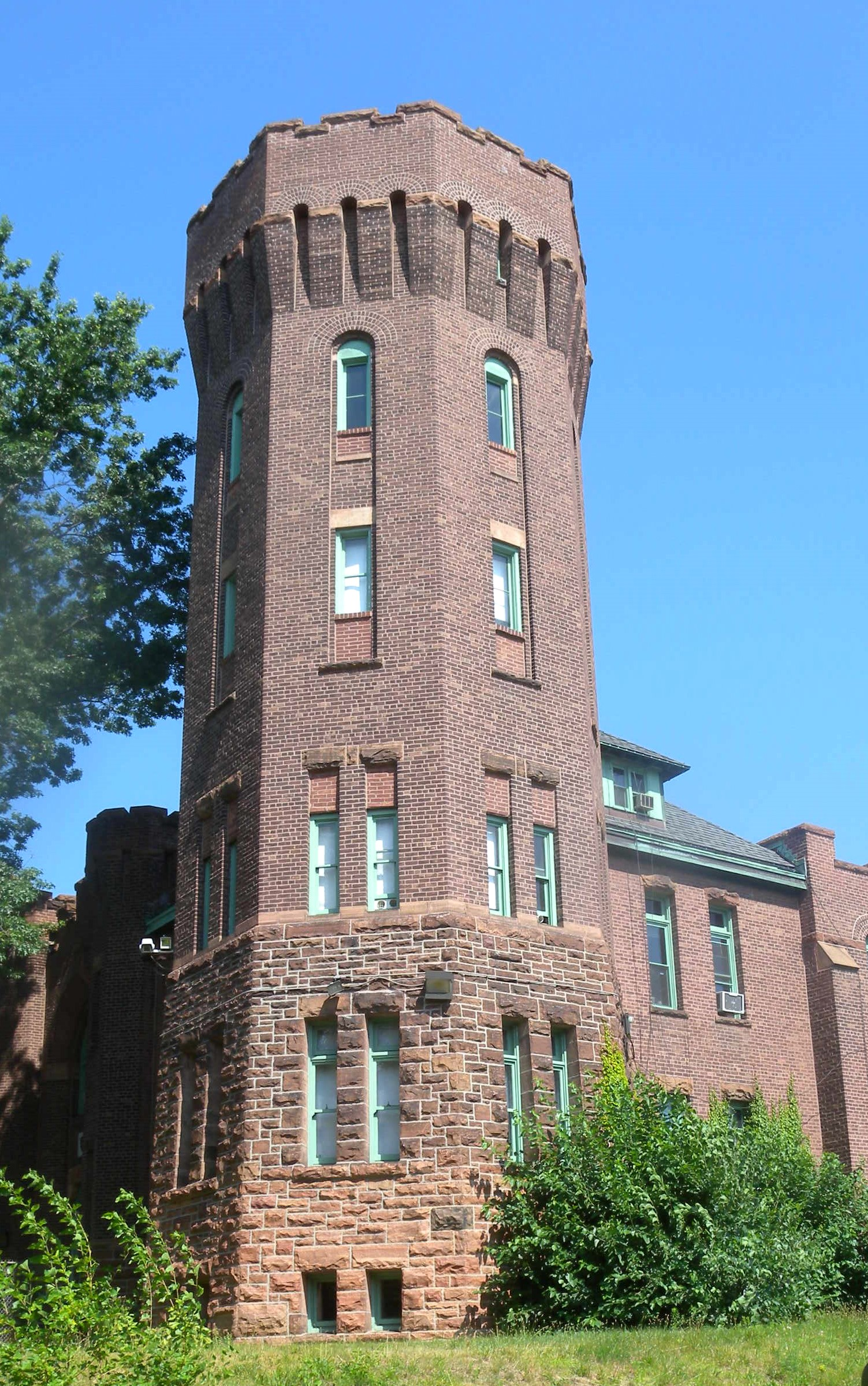 Looking east at west tower of armory on a sunny early afternoon.